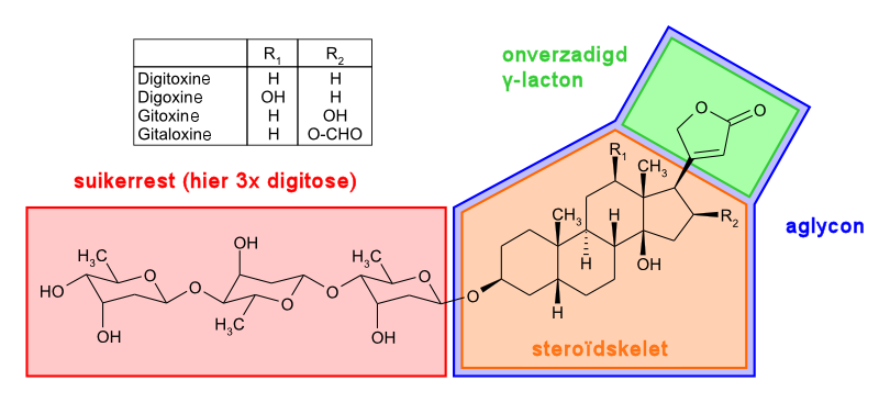 Dutch text